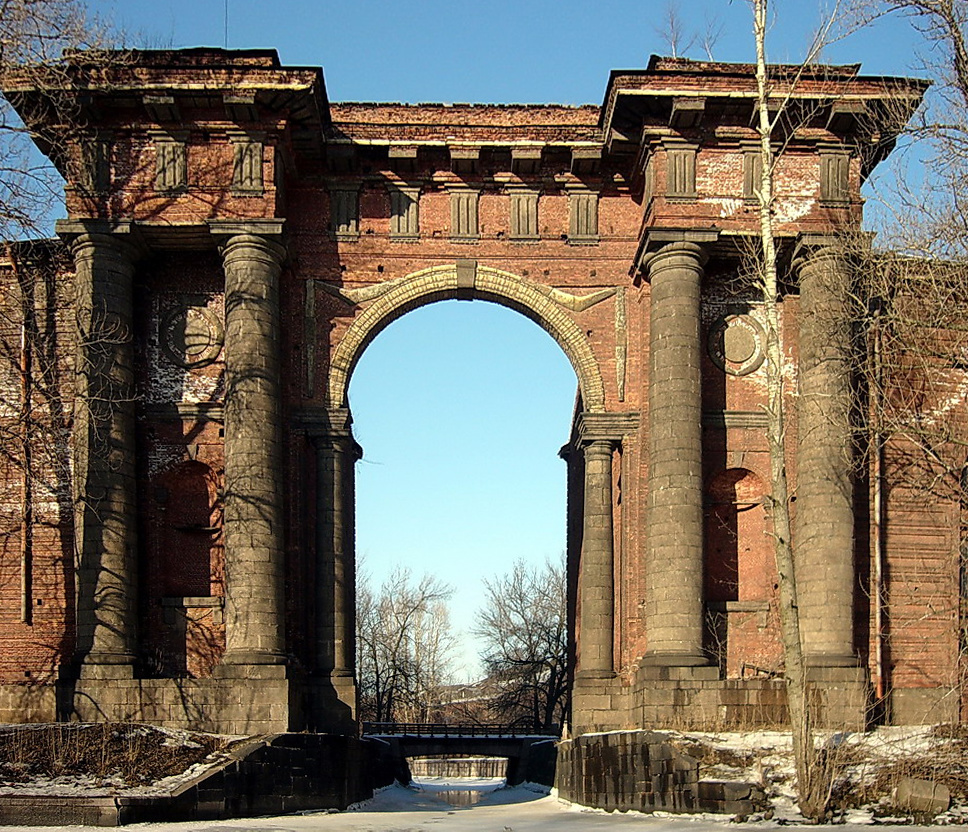 The arch of New Holland in Saint Petersburg, photograph by Evgeny Gerashchenko